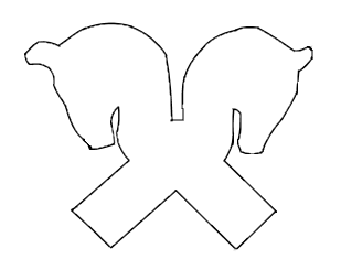 Vehicle insignia of the 272nd Infanterie/272nd Volksgrenadier Division, German Army, World War II